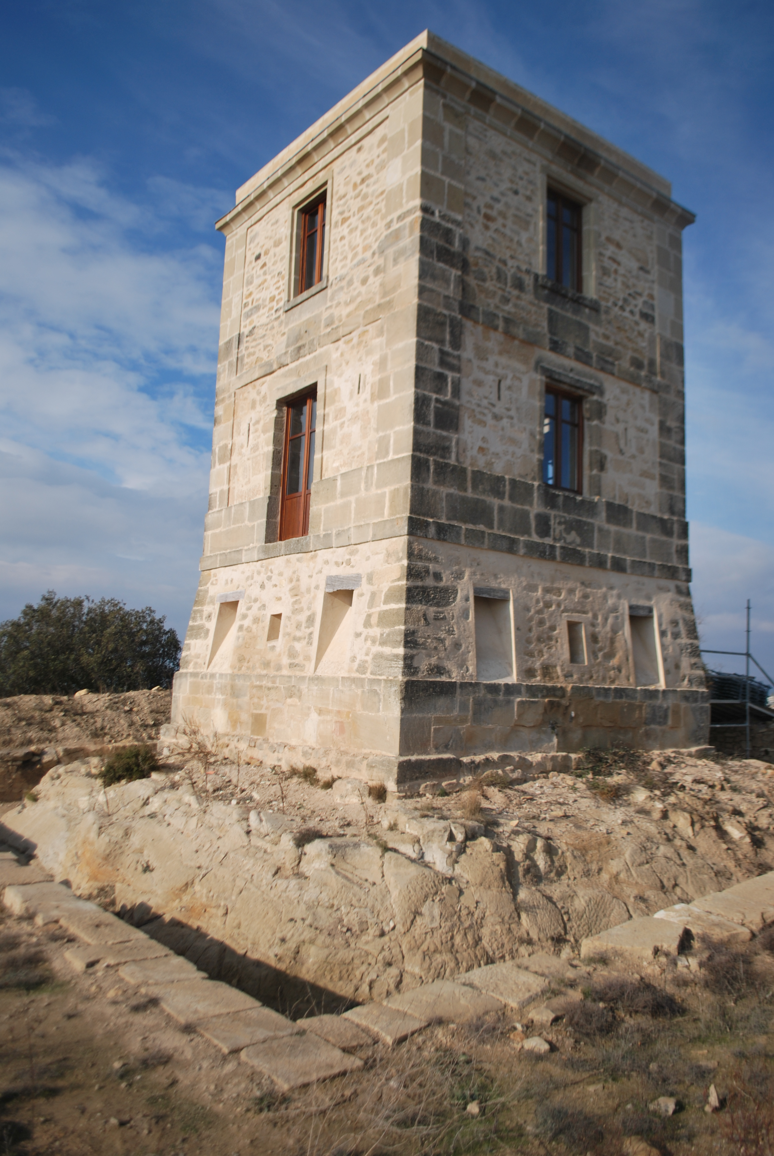 Signal tower of Quintanilla de la Ribera (Álava)